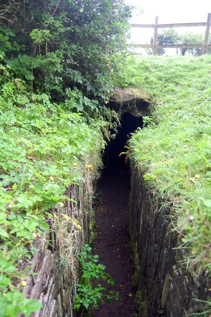 Entrance to Halliggye Fogou A fogou is a middle iron age underground passage/chambers, which only occur in Cornwall. They were built underneath settlements but the purpose is unknown - could be for refuge, storage or ceremonial. This one is apparently a great example, more extensive than most and is open to the public - when the horseshoe bats aren't hibernating. Well worth a visit, but you will need a torch.